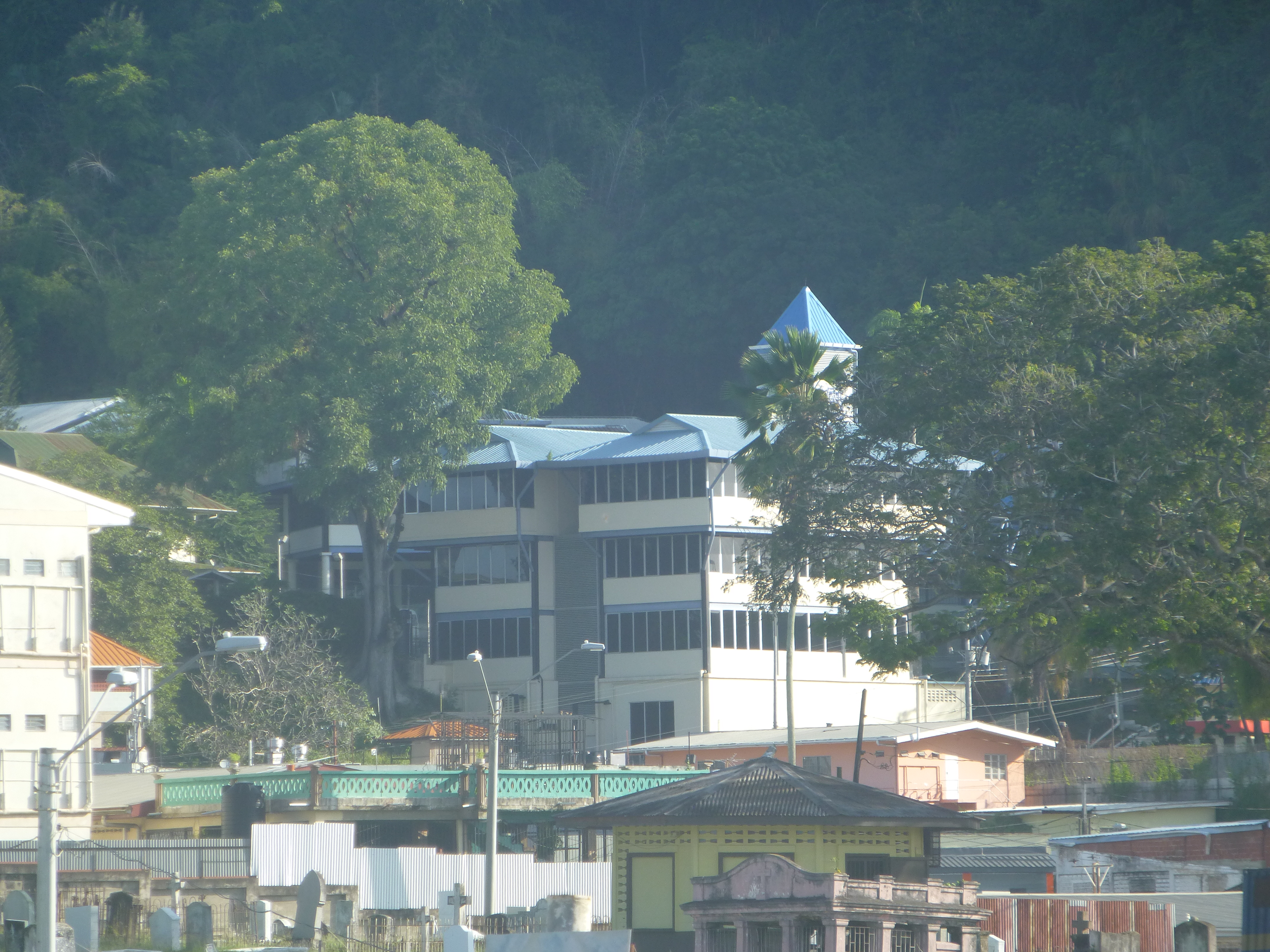 Naparima Girls' High School, San Fernando, Trinidad and Tobago.